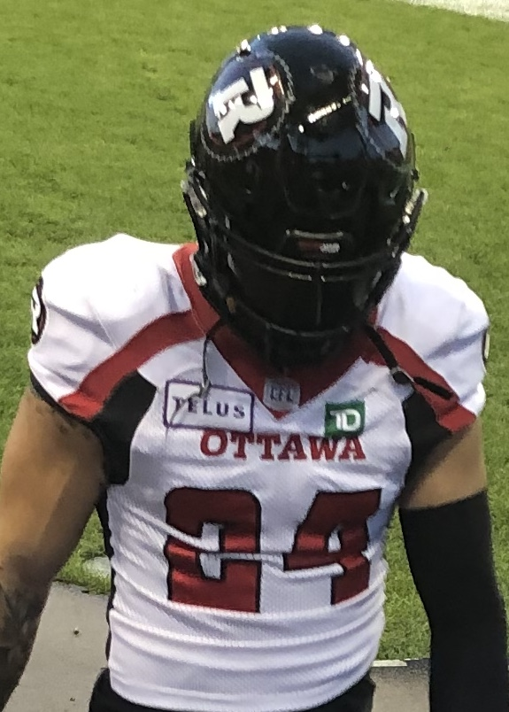 Anthony Cioffi, defensive back for the Ottawa Redblacks.